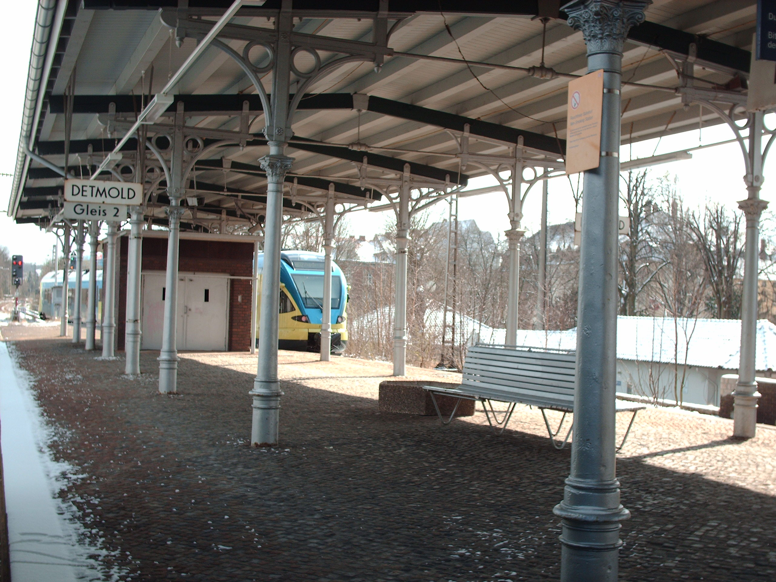 Detmold station, Detmold, Germany check usage